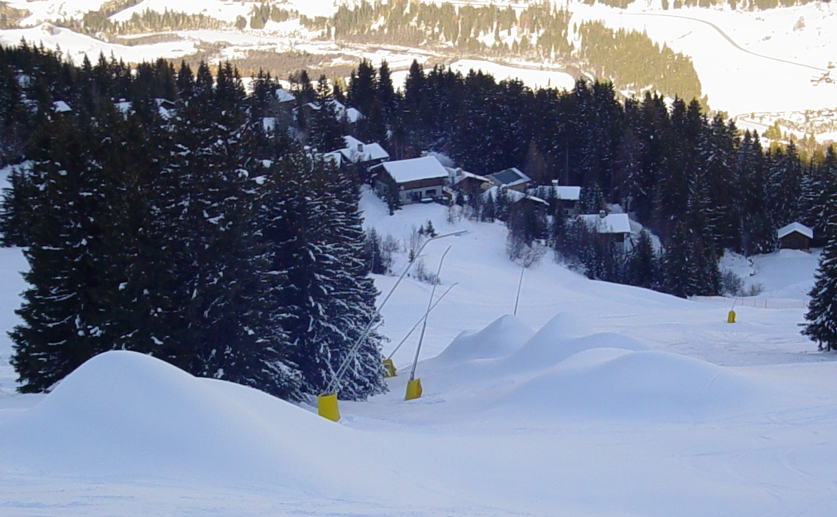 Snow guns of Savognin Bergbahnen and their artificial snow heaps above Tigignas, Riom-Parsonz, Grison, Switzerland.